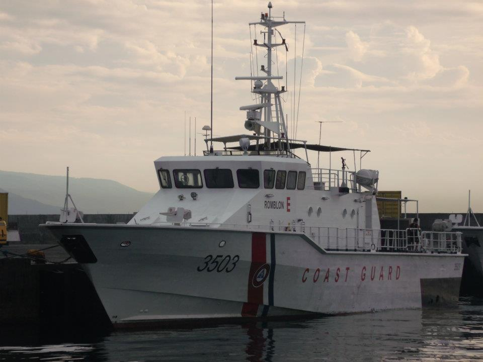 BRP Romblon (SARV 3503) docked at the port of Dumaguete City, Negros Oriental.